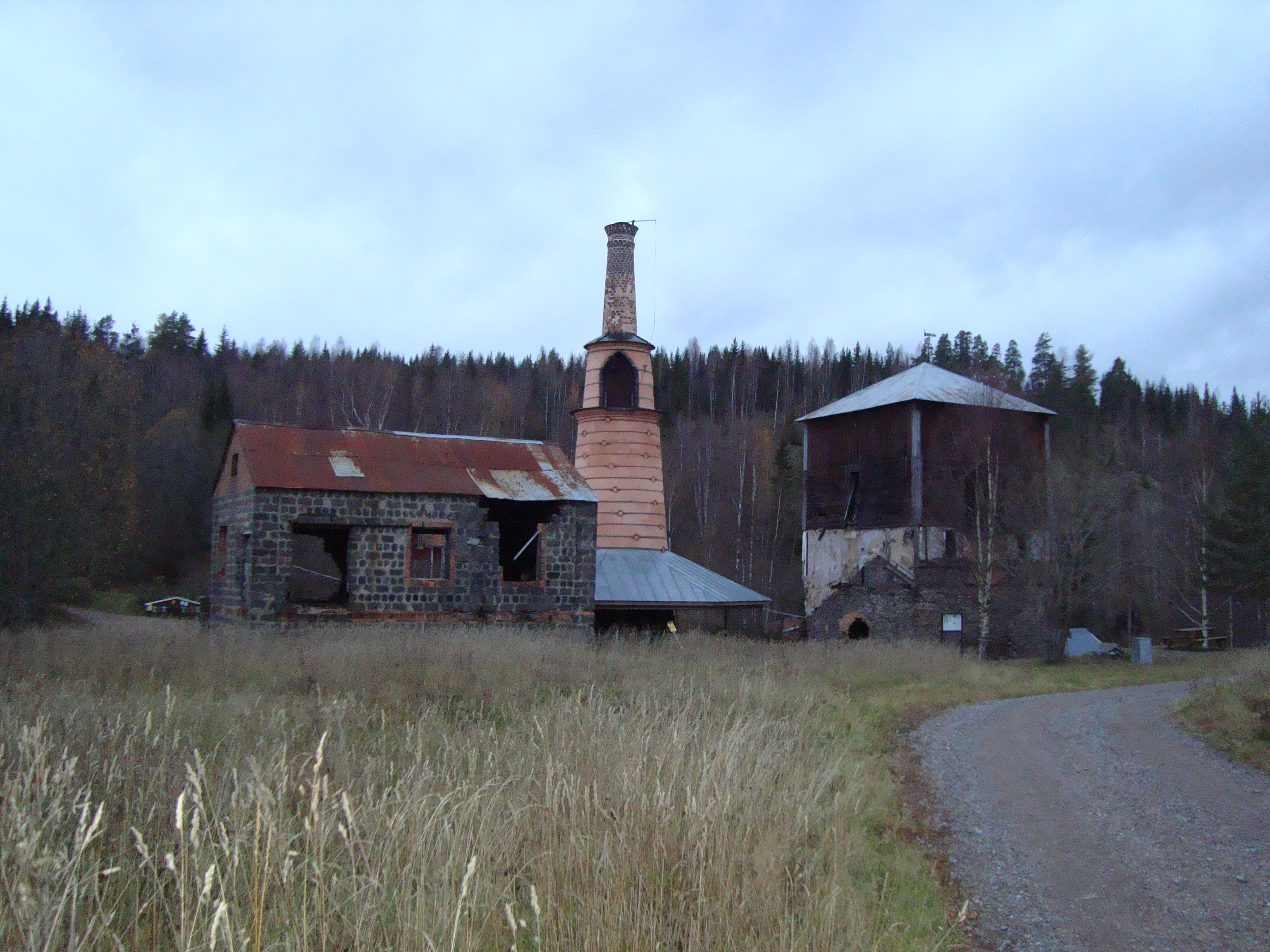 Old iron works of Ulvshyttan, Säter municipality, Sweden